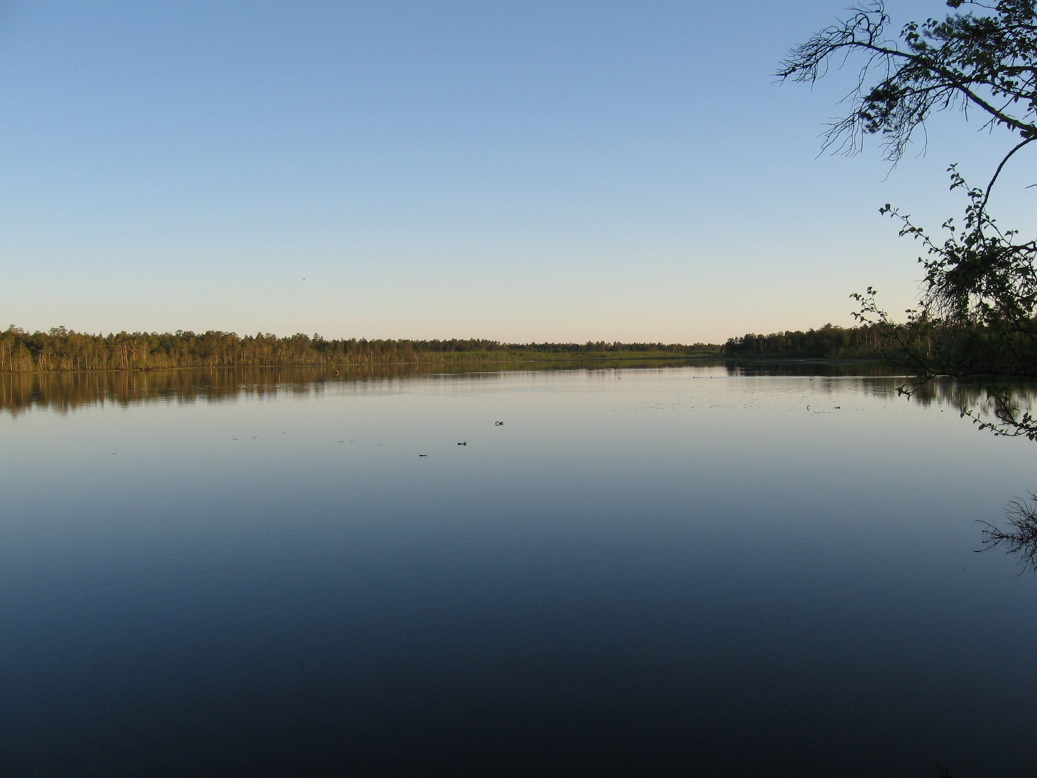 Iso Sunijärvi at Hailuoto, Finland